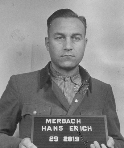 Hans Erich Merbach, SS-Obersturmführer, from 1943-1945 commanding officer of the guard dog unit at Auschwitz concentration camp, then commandant of the Abteilung Schutzhaftlager ('protective custody')at Buchenwald concentration camp and supervisor of the evacuation of Buchenwald prisoners to Dachau